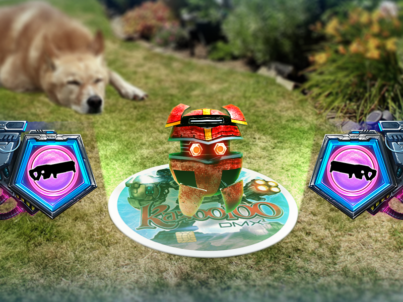 Kazooloo game